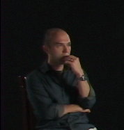 American pastor Joshua Harris